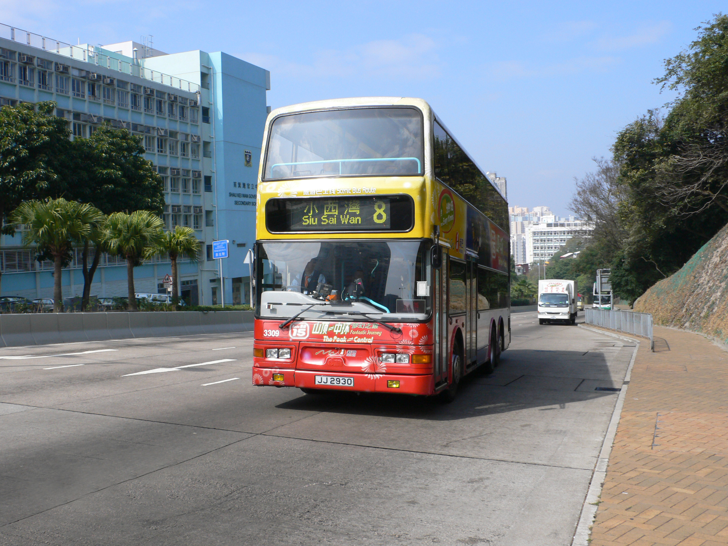 NWFB 10.3m Trident 3 w/ Duple Metsec bodywork, running at route 8.